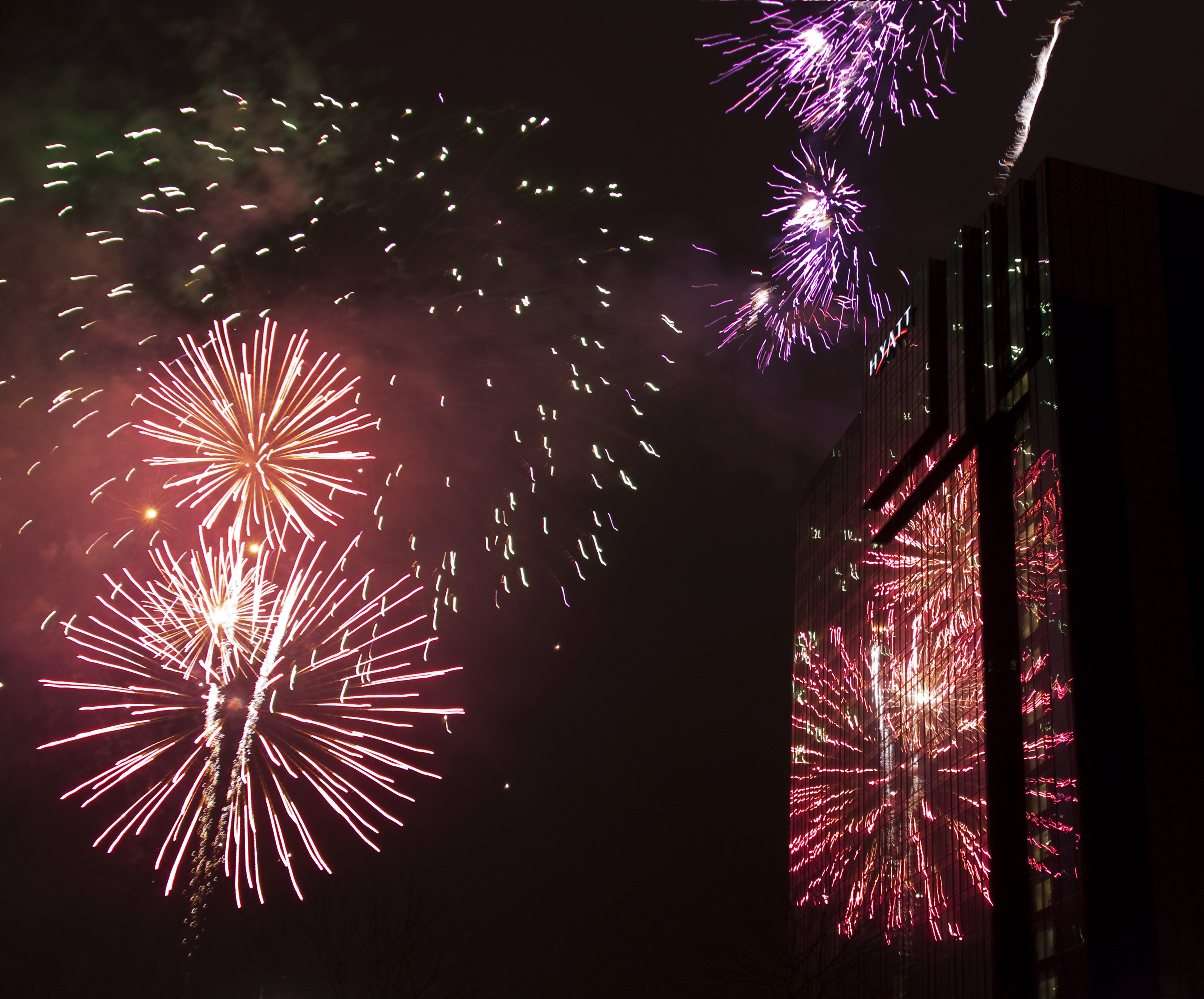 Fireworks Birmingham New Year 2011 b